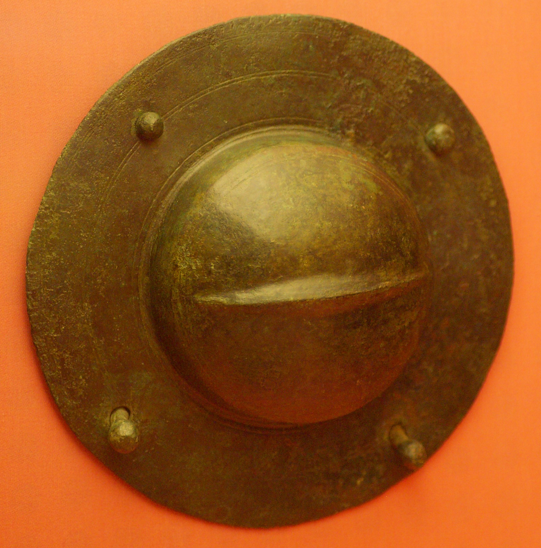 Umbo of a Roman Scutum. Museum Carnuntum